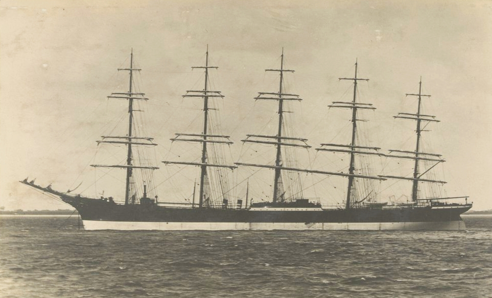 Five-masted full-rigged sailing ship „Preußen“ at anchor. The ship was built in 1902 in Germany and was wrecked off the coast of England in 1910 after being.